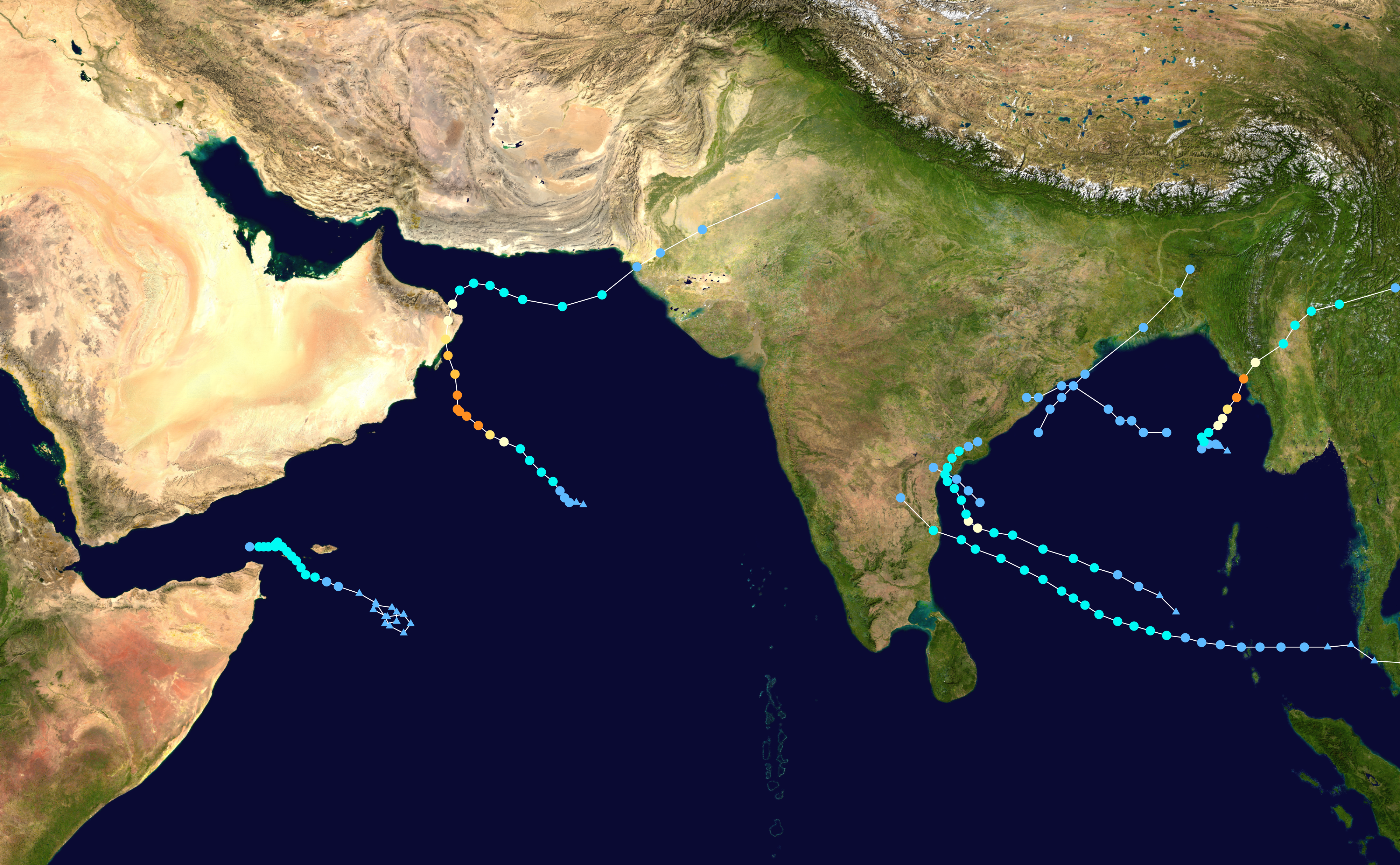 This map shows the tracks of all tropical cyclones in the 2010 North Indian Ocean cyclone season. The points show the location of each storm at 6-hour intervals. The colour represents the storm's maximum sustained wind speeds as classified in the Saffir-Simpson Hurricane Scale (see below), and the shape of the data points represent the type of the storm. Saffir–Simpson scale Tropical depression≤38 mph≤62 km/h Category 3111–129 mph178–208 km/h Tropical storm39–73 mph63–118 km/h Category 4130–156 mph209–251 km/h Category 174–95 mph119–153 km/h Category 5≥157 mph≥252 km/h Category 296–110 mph154–177 km/h Unknown Storm type Tropical cyclone Subtropical cyclone Extratropical cyclone / Remnant low / Tropical disturbance / Monsoon depression